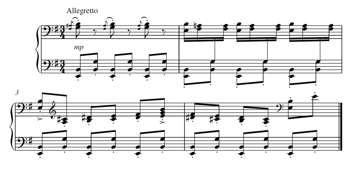 The first few bars of the Carmen Variations by Vladimir Horowitz